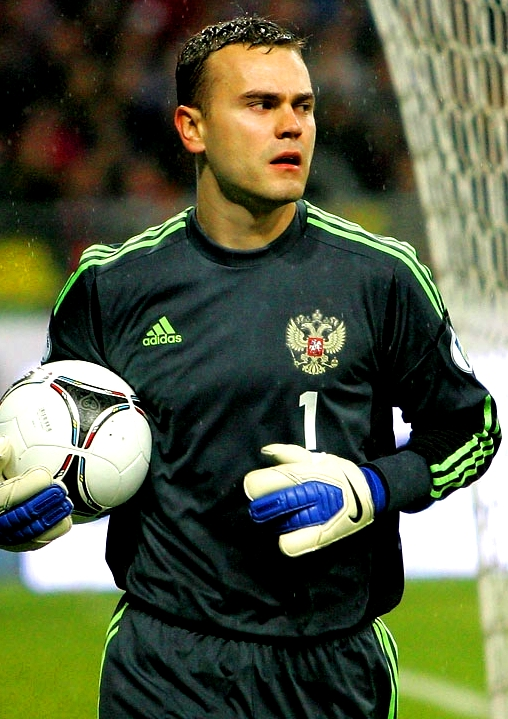 Igor Akinfeev